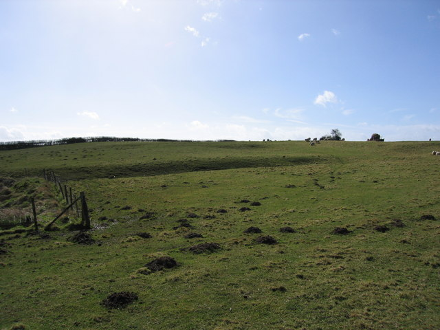 The lost village of Arlescott These are the humps and hollows of the lost medieval village of Arlescott near Much Wenlock.